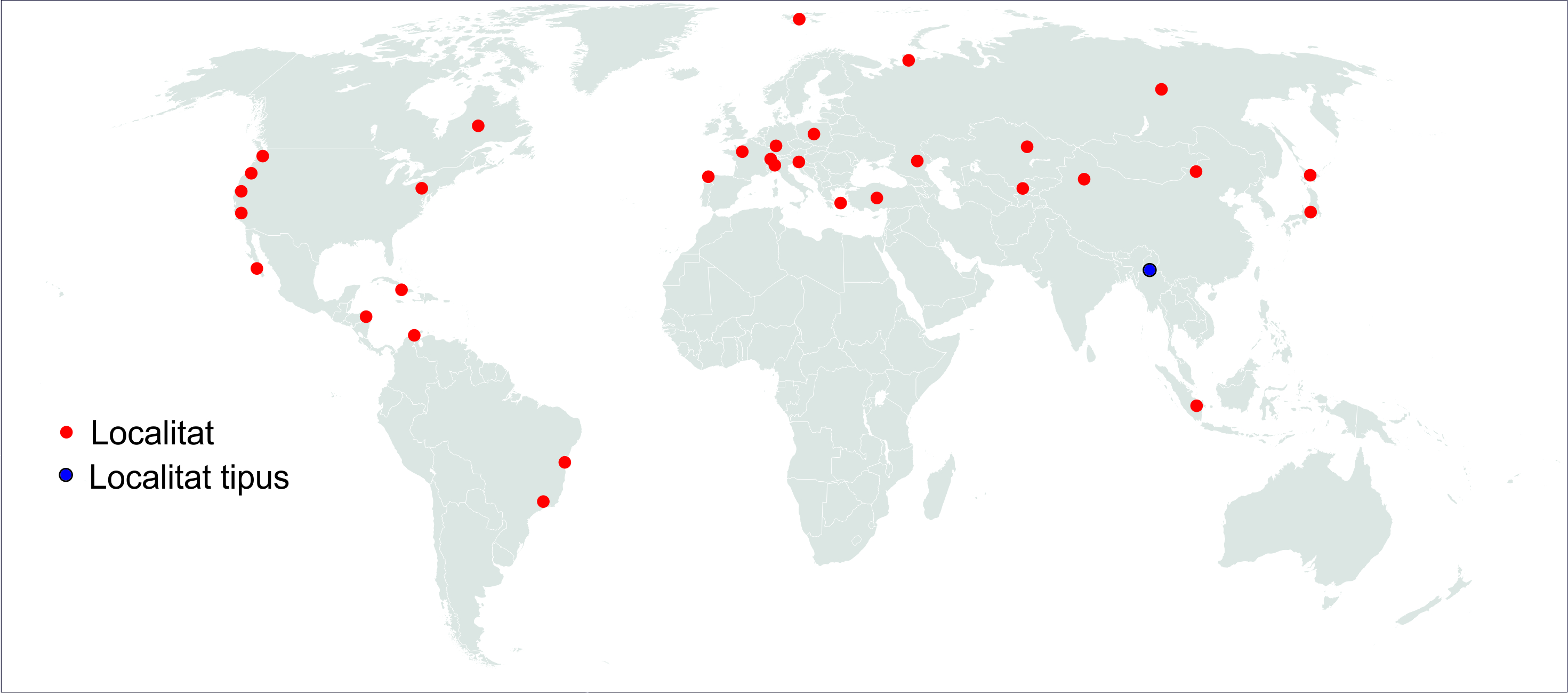 Jadeite location map.